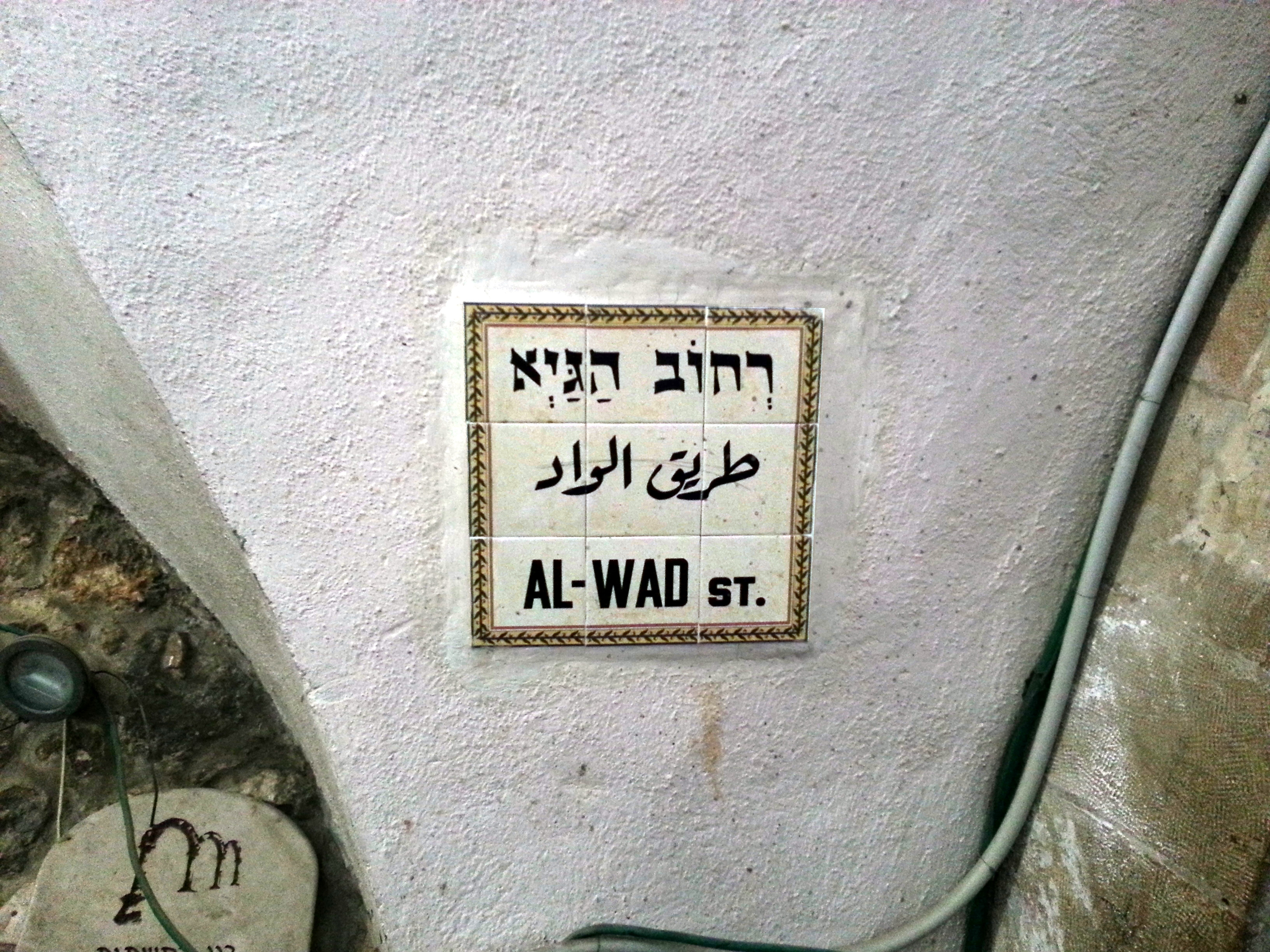 Old Jerusalem, Muslim quarter, Al-Wad street sign